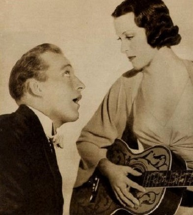 Bing Crosby e Kitty Carlisle in "Here is My Heart".